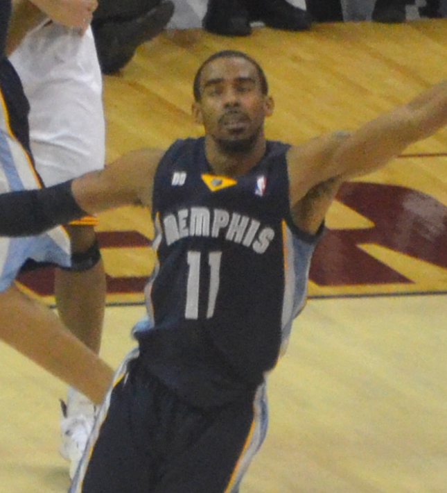 Mike Conley, Jr., Memphis Grizzlies at Cleveland Cavaliers March 8, 2013